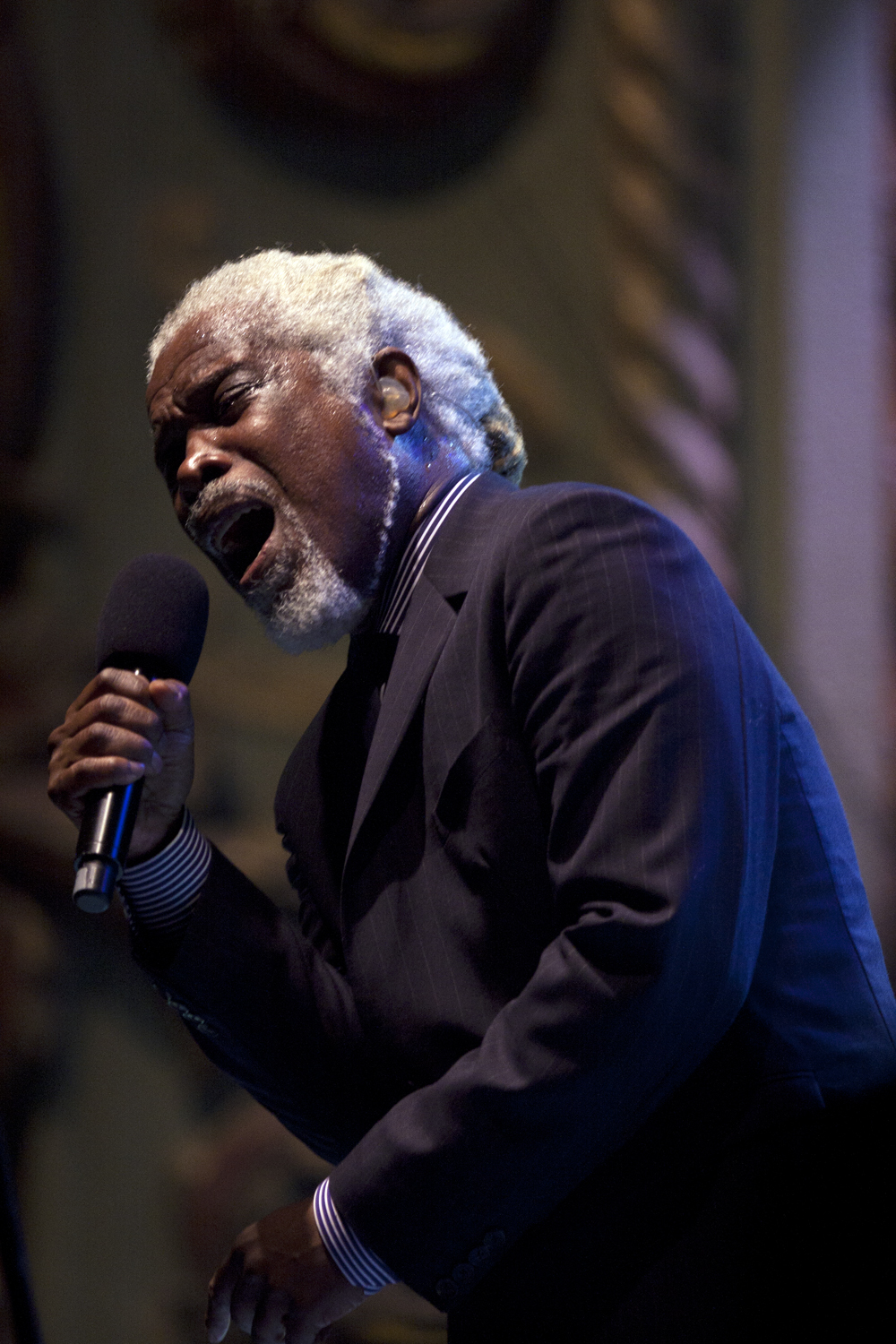 Billy Ocean